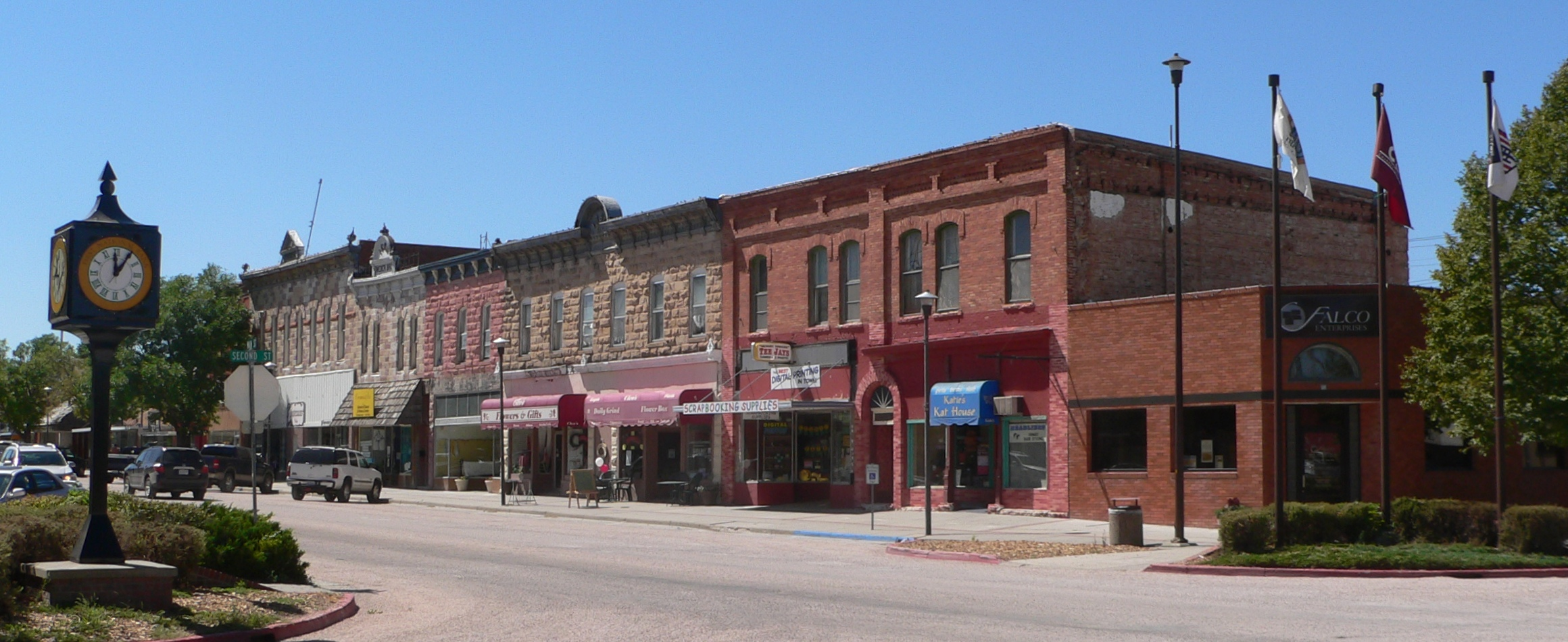 West (odd-numbered) side of 200 block of Main Street in Chadron, Nebraska. The block is part of the Chadron Commercial Historic District, which is listed in theNational Register of Historic Places.